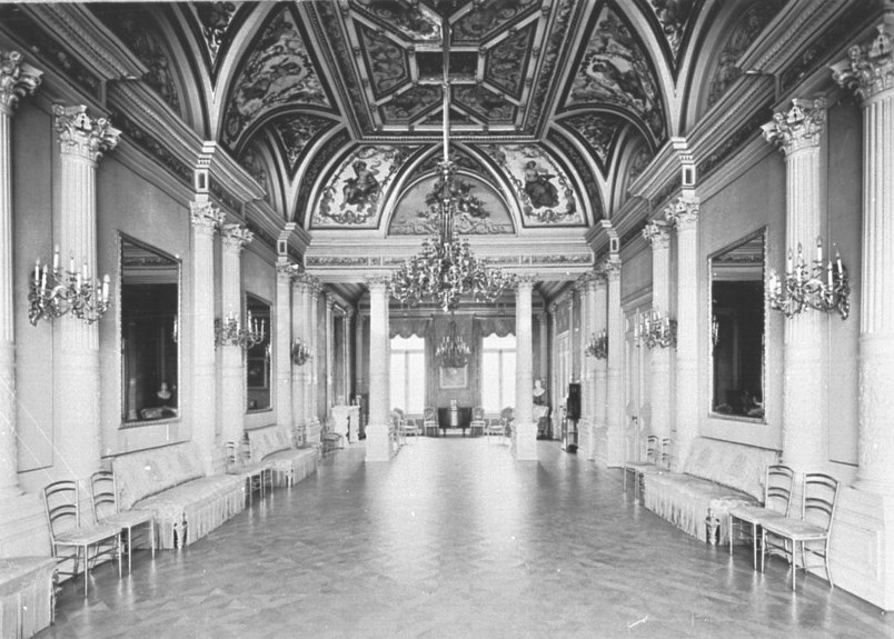 Haus Olbermann, Köln, um 1895